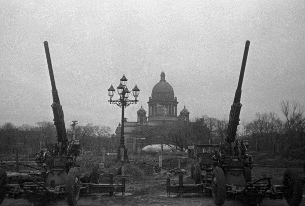 “Anti-aircraft guns guarding the sky of Leningrad”. Anti-aircraft guns guarding the sky of Leningrad.